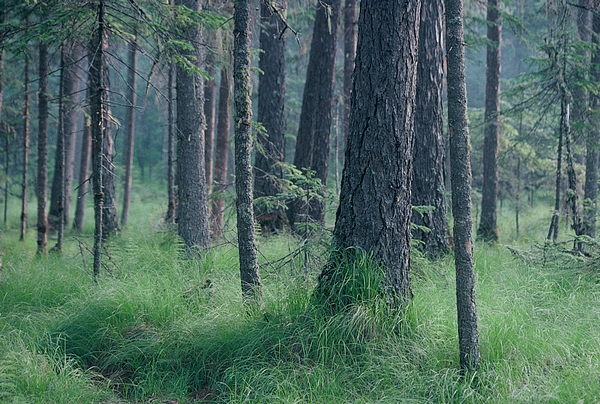 Rearing Habitat, Larch forest close to Ledum-bog